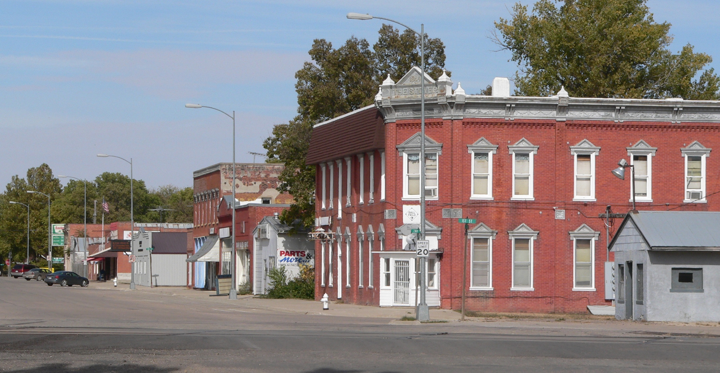 Downtown Edgar, Nebraska: east side of C Street, looking northeast from about the Union Pacific Railroad tracks south of 2nd Street. The two-story red brick building in the right half of the photo is the Stover Hotel, located at the northeast corner of 2nd and C; it was built in 1893.